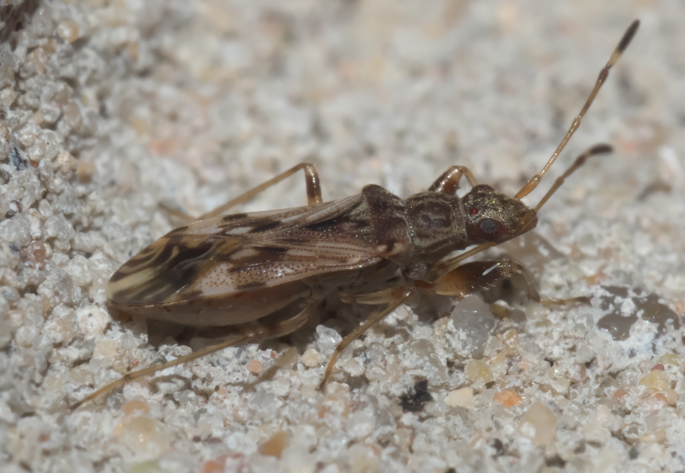 Ozophora picturata, Family: Dirt-colored Seed Bugs, Size: 5.4 mm, ID Confidence: 88